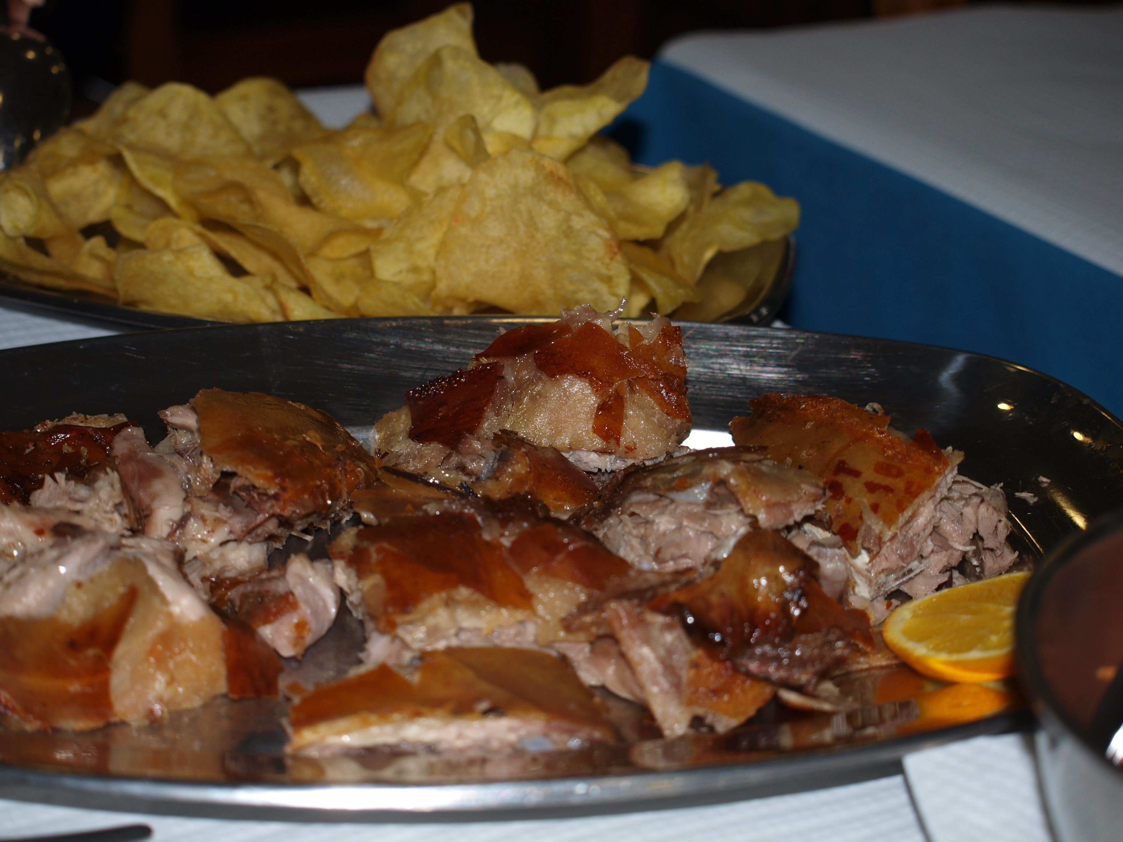 "Leitão à Bairrada", a portuguese suckling pig dish.